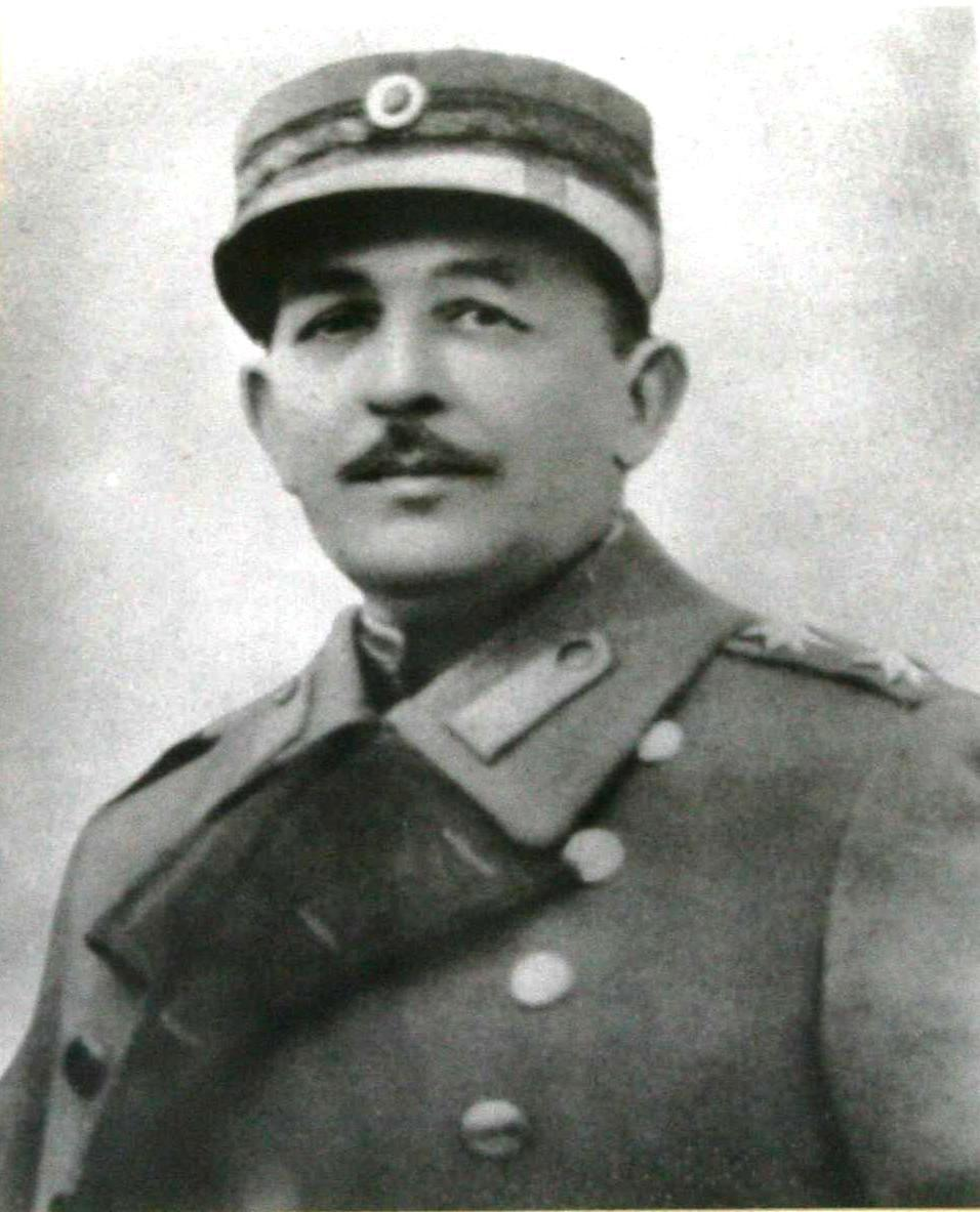 Greek general and politician Theodoros Manetas, ca. 1930